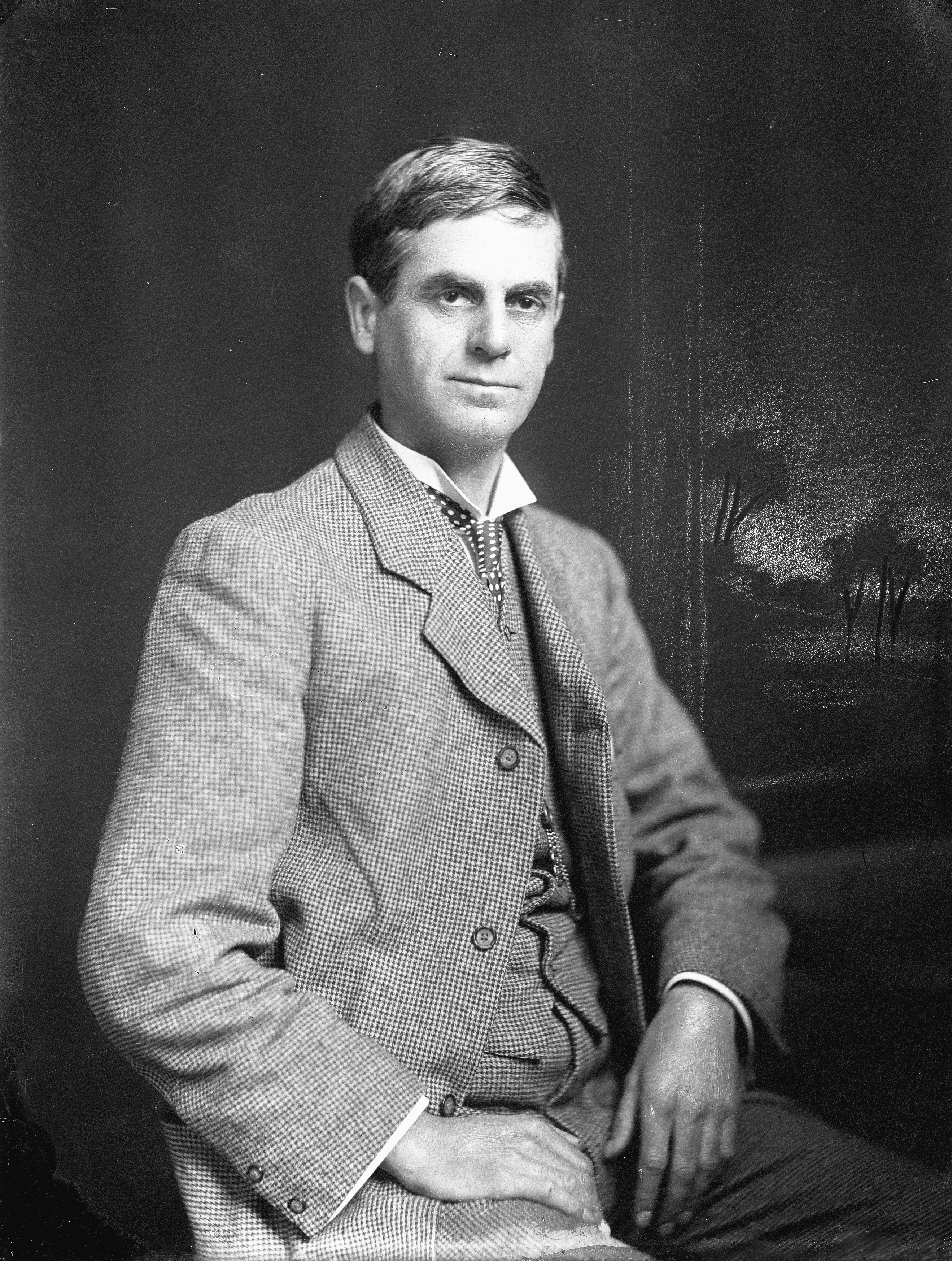 Formal seated portrait of Thomas Edward Taylor, probably in the studio of the photographer. Photograph taken by Stanley Polkinghorne Andrew in 1910.